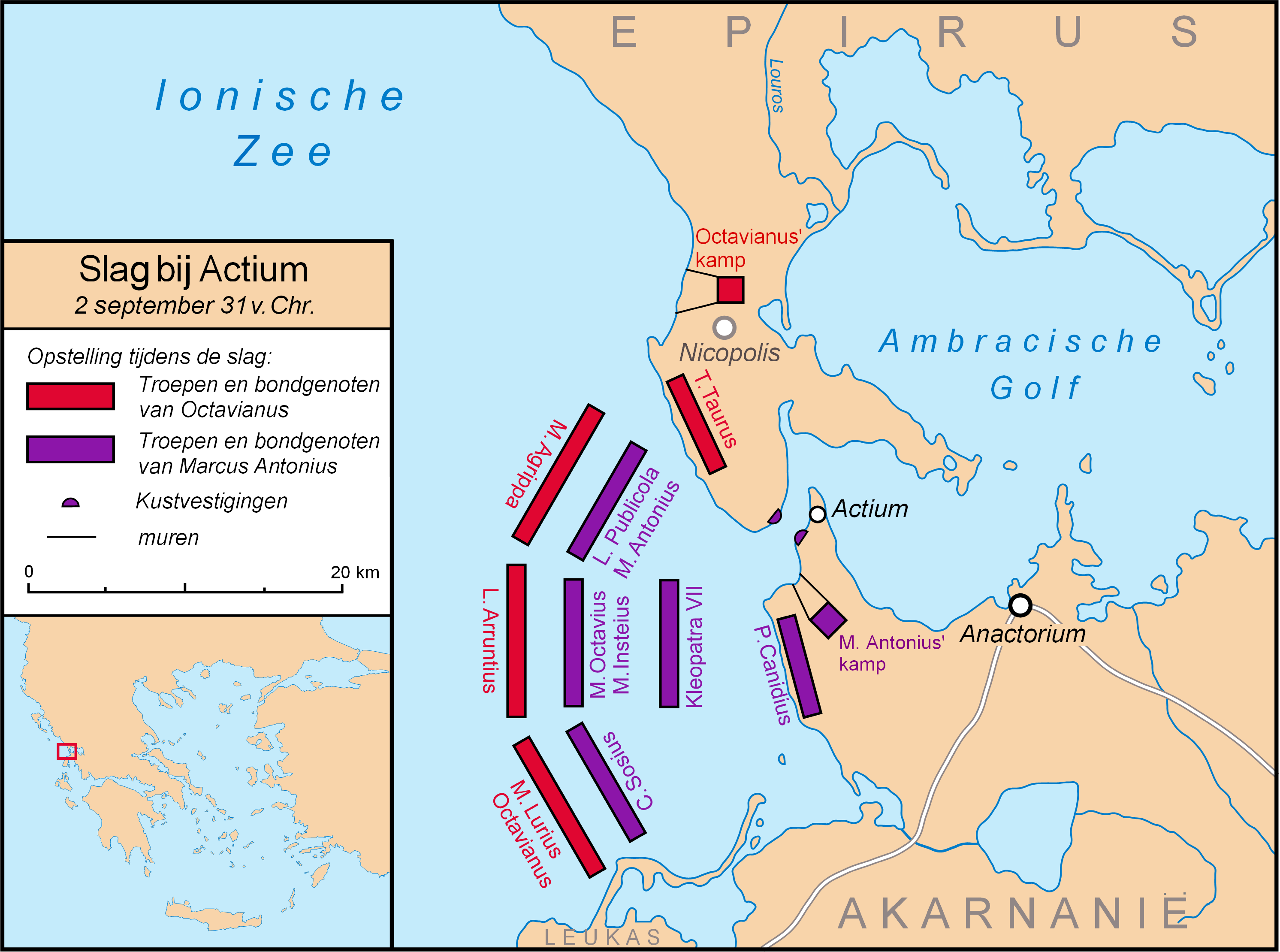 Slag bij Actium (translation of German version, see other versions)